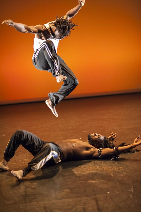 Sagatala looks at the socially constructed dominant masculine identity, passed from father to son, mentor to student, its expectation for strength and action. Juxtaposed in this is the individual's vulnerability in a society with so much political and social uncertainty and a poverty fo opportunities for young people. Exploring the traditional role of initiation and how these ideologies function as a guide on how tobe (or not to be) a man. Danced and choreographed by Idrissa Camara and Oumar Almamy Camara